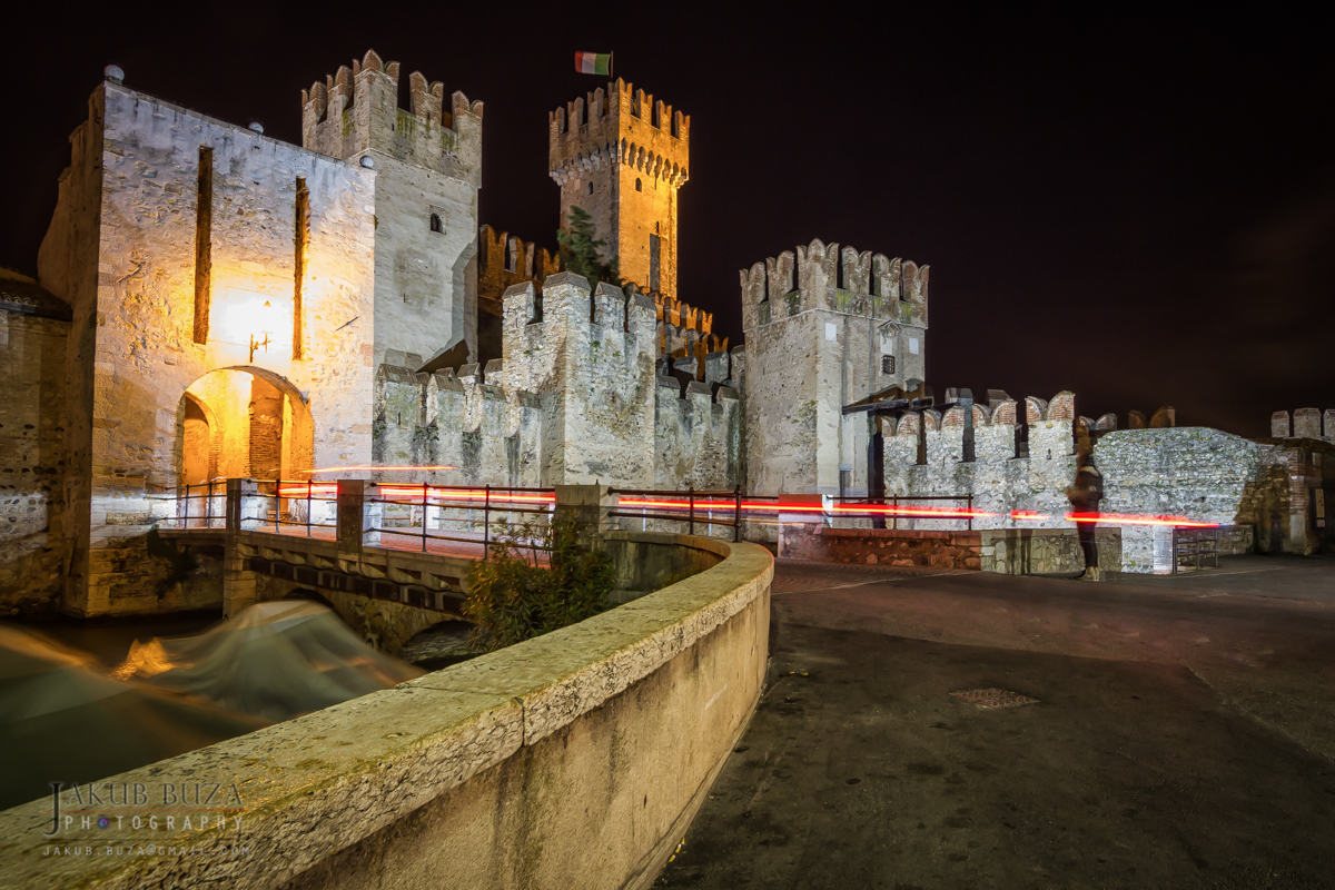 Scaliger Castle - entrance to the historic part of Sirmione